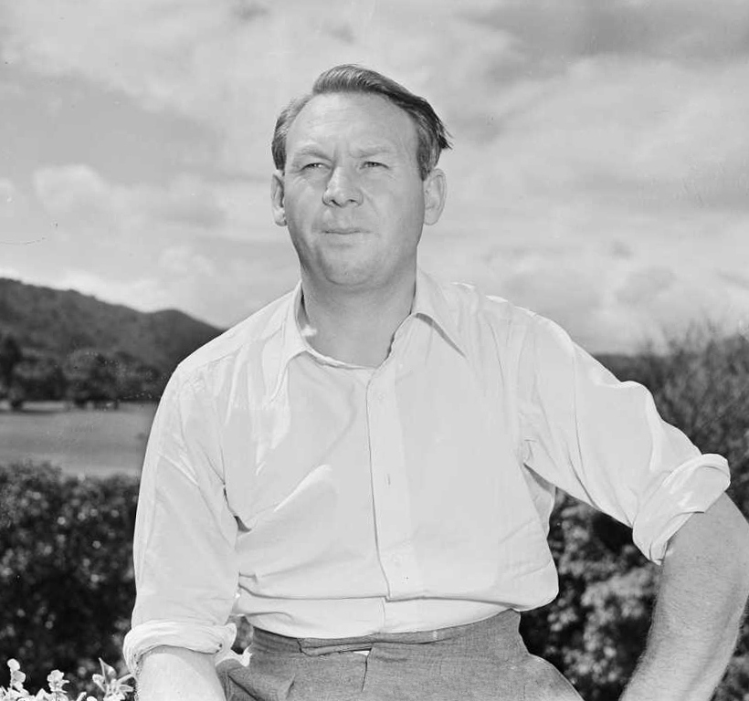 Member of the Australian Cricket Team, D Ring, photographed in 1950 by an Evening Post photographer.